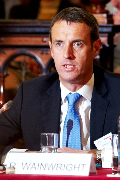 Rob Wainwright, Director, Europol